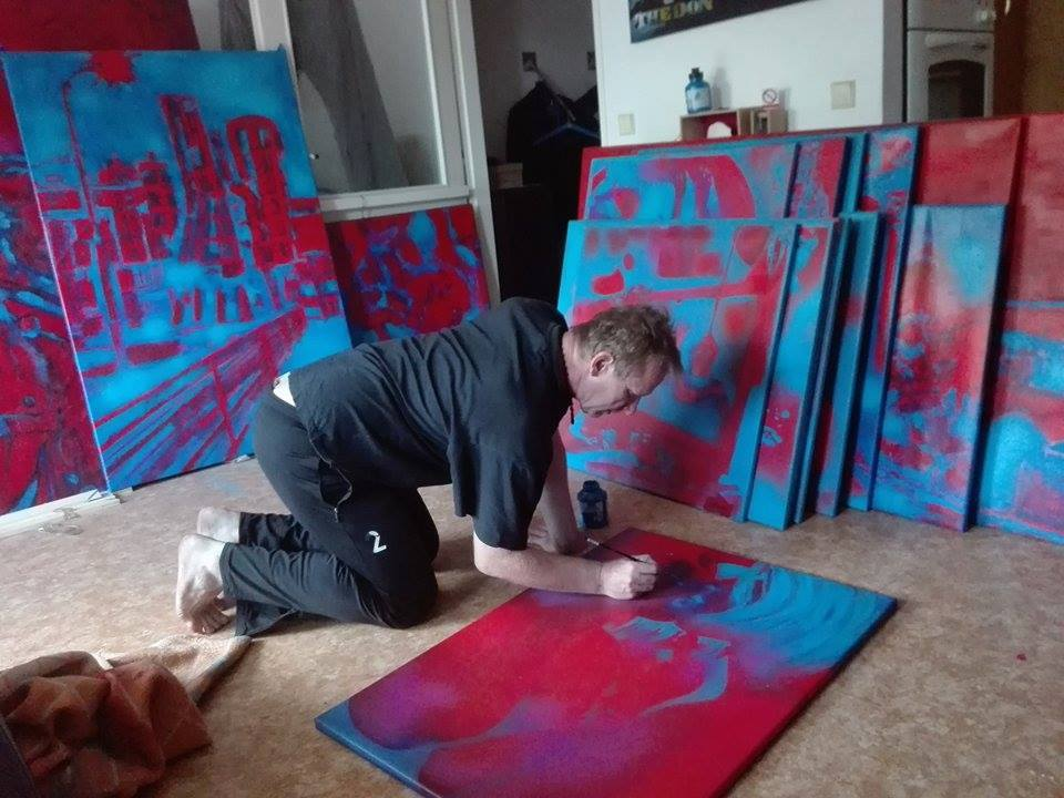 Creating of Red Blue Dimension paintings by Peter Herel Raabenstein